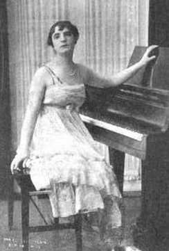 Germaine Schnitzer, from a 1920 publication. White woman with short dark hair, wearing a white gown, seated at a piano.